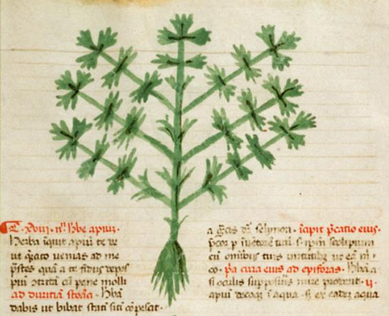 "Apium," (family Umbelliferae), probably Apium graveolens, (Celery), bears odd-pinnate compound leaves with dentate leaflets on a central stem. Lombardy, ca. 1400. [Note] Rubricated text to the left of upper image: cxviii nomen herbe apium. A grecis dicitur selynon...prima cura eius ad epiforas. [Note] Rubricated text to the left of lower image: cxix nomen herbe crisocantis...prima eius cura ad ydropicos.